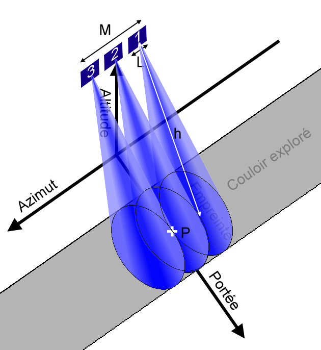 SAR elements (labeling in French)